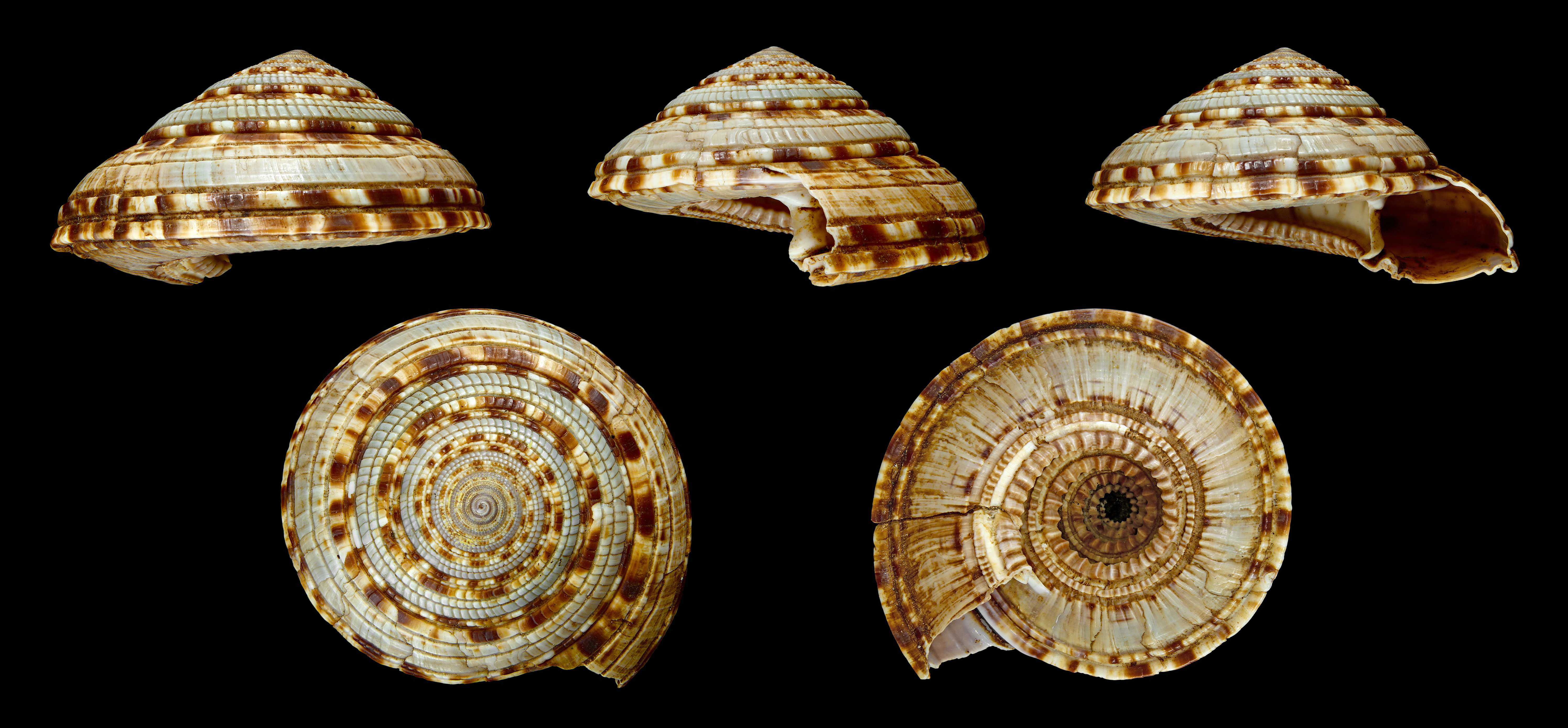 Giant Sundial, Diameter 5,5 cm; Originating from the Indo-Pacific; Shell of own collection, therefore not geocoded.